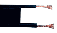 A piece of 300 ohm twin lead transmission line, formerly used to connect televisions with their antennas. It consists of two stranded copper wires held a precise distance apart with a polyethylene ribbon.